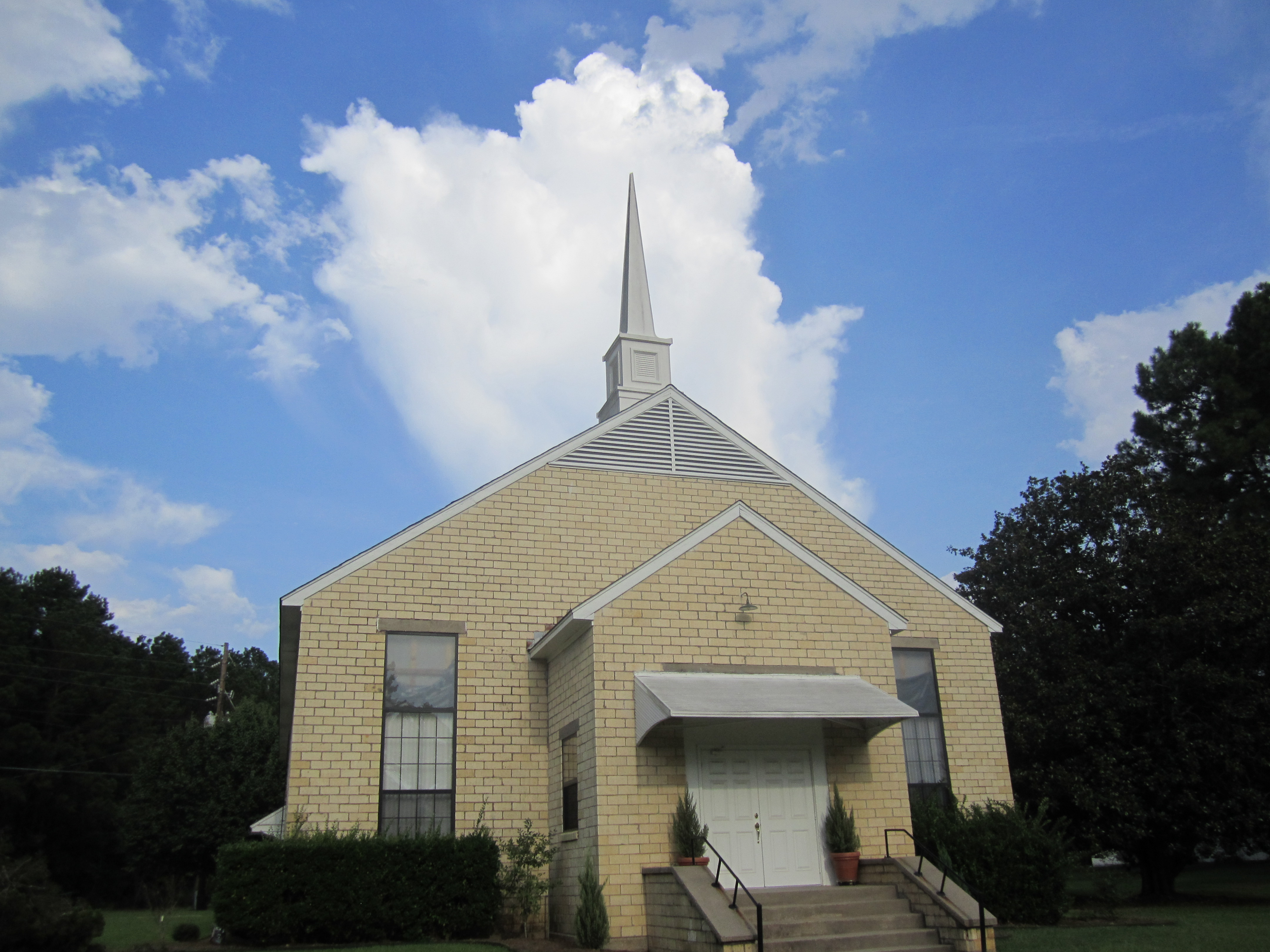 I took photo with Canon camera in Dubberly, LA.